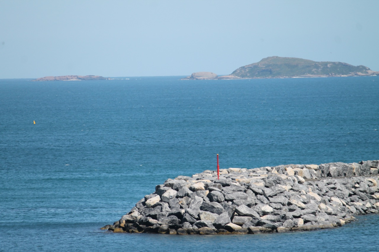 Stonework for Augusta Boat Harbour with Saint Alouarn Island on skyline at right, Flinders Islet/Island on left rear